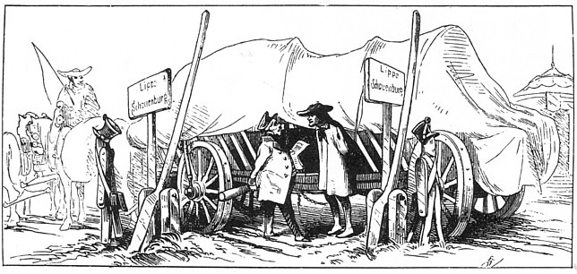 Is it the wagon that is too big or the Principality of Schaumburg-Lippe that is too small? German cartoon from 1834 poking fun at the number of micro states and customs barriers before the adoption of a German custom union (Zollverein).